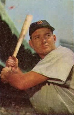 Boston Red Sox third baseman George Kell in about 1953.